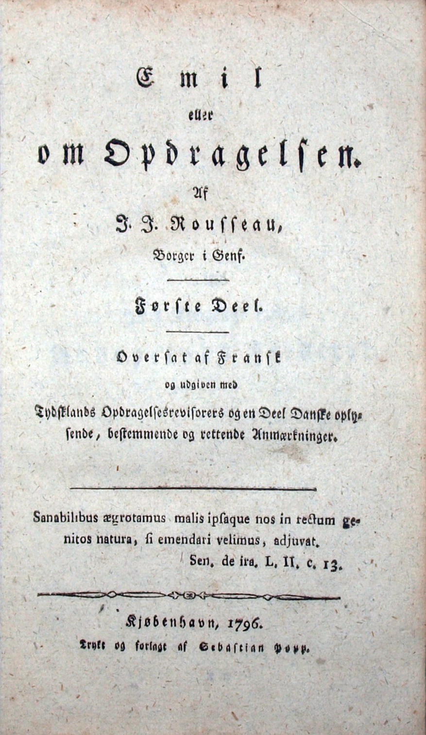 The first volume of the first Danish translation of Jean Jacques Rousseaus "Emile", translated by Johan Werfel. Published 1796.